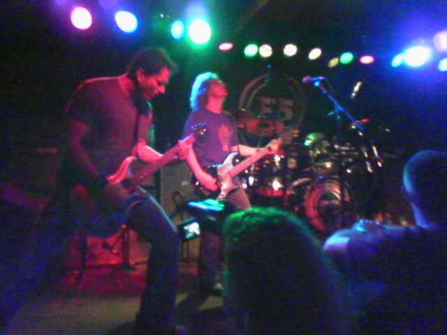 F5 performing at The Haunt in Ithaca, NY in the Summer of 2006.